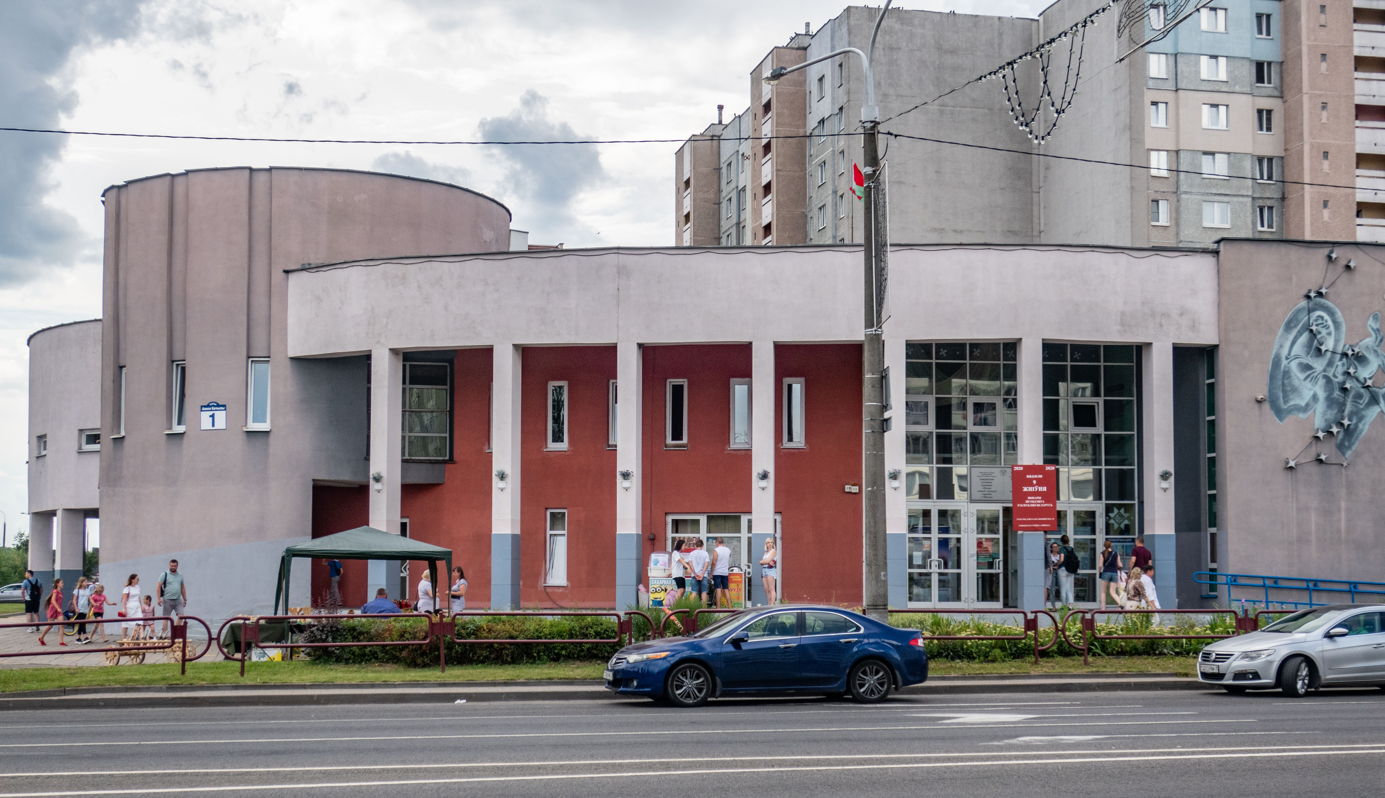 External view of one of the polling stations during 2020 Belarusian presidential election. Minsk, Belarus